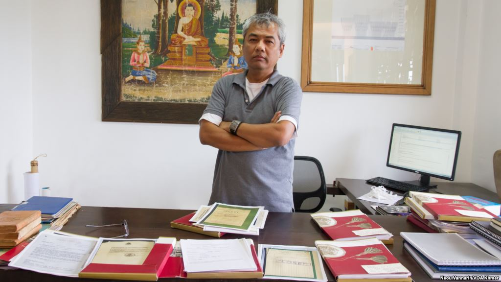 Youk Chhang, director of Documentation Center of Cambodia, stand with classified-document from the Australian External (Foreign) Affairs Department, on September 22, 2015. (NeouVannarin/VOA Khmer)